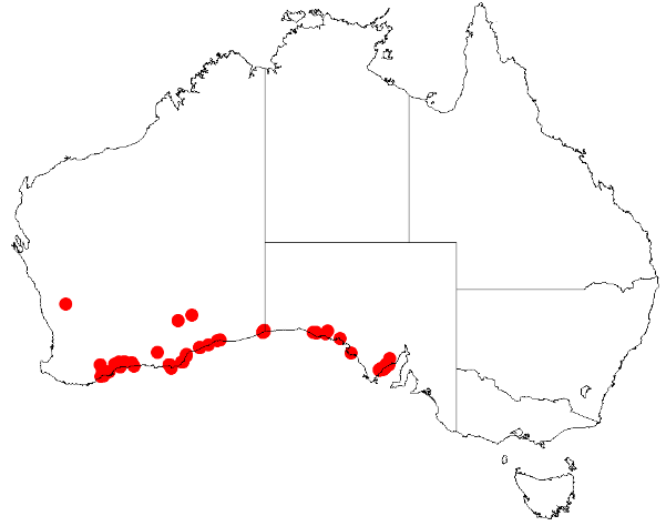 Scaevola myrtifolia occurrence data downloaded from Australasian Virtual Herbarium 12 May 2019